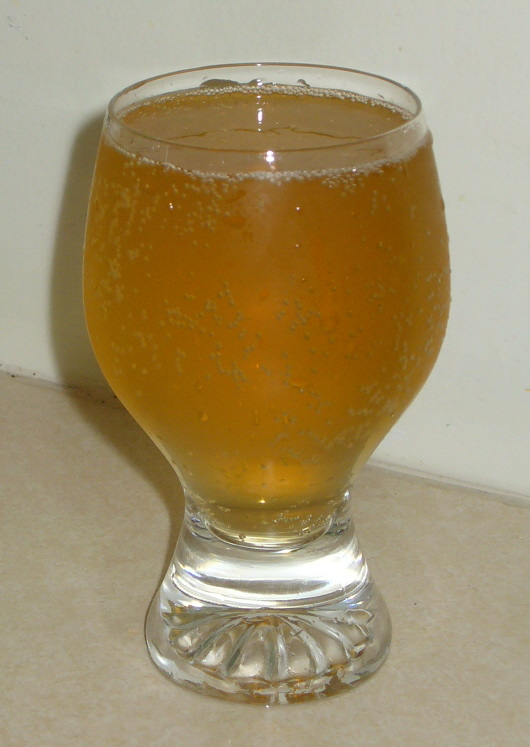 A glass of Reed's Premium Ginger Ale